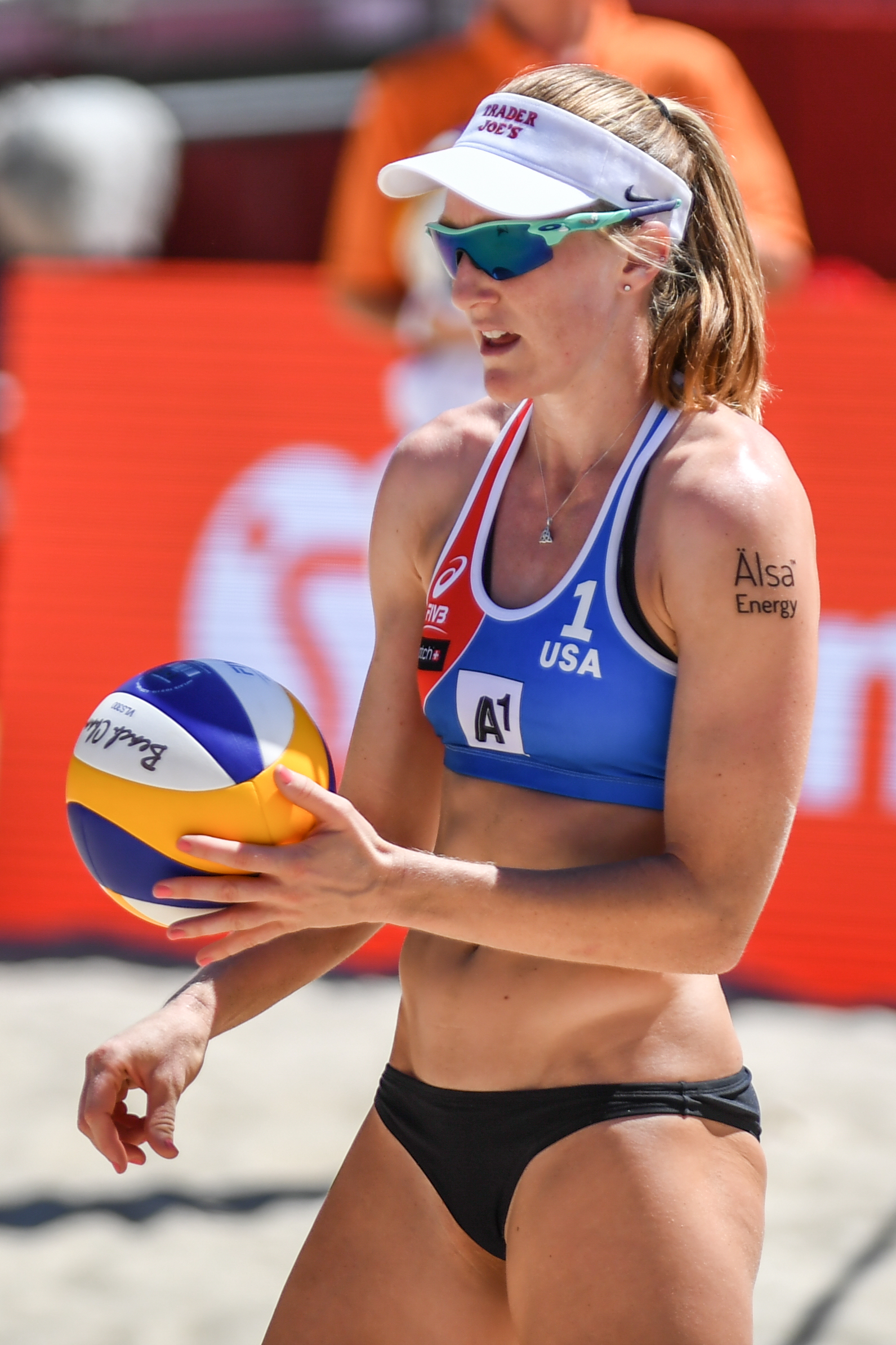 29/7/17, Vienna, Austria, sports, beach volleyball, FIVB Beach Volleyball World Championships.